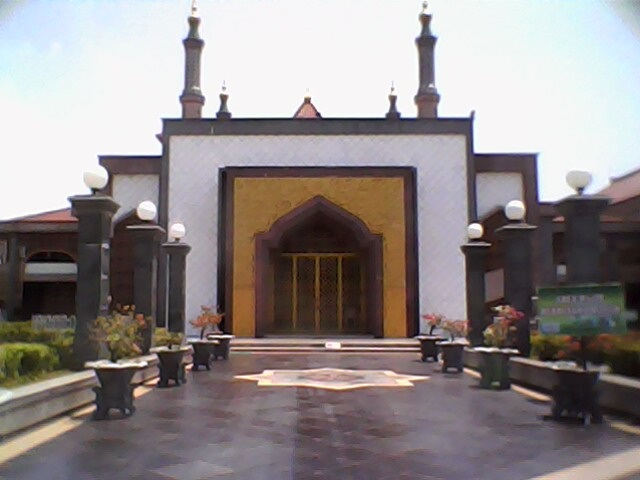 Mosque Great Cirebon